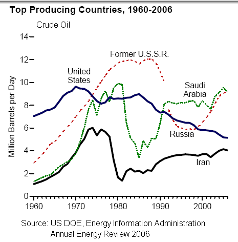 Top Oil Producing Countries 1960-2006